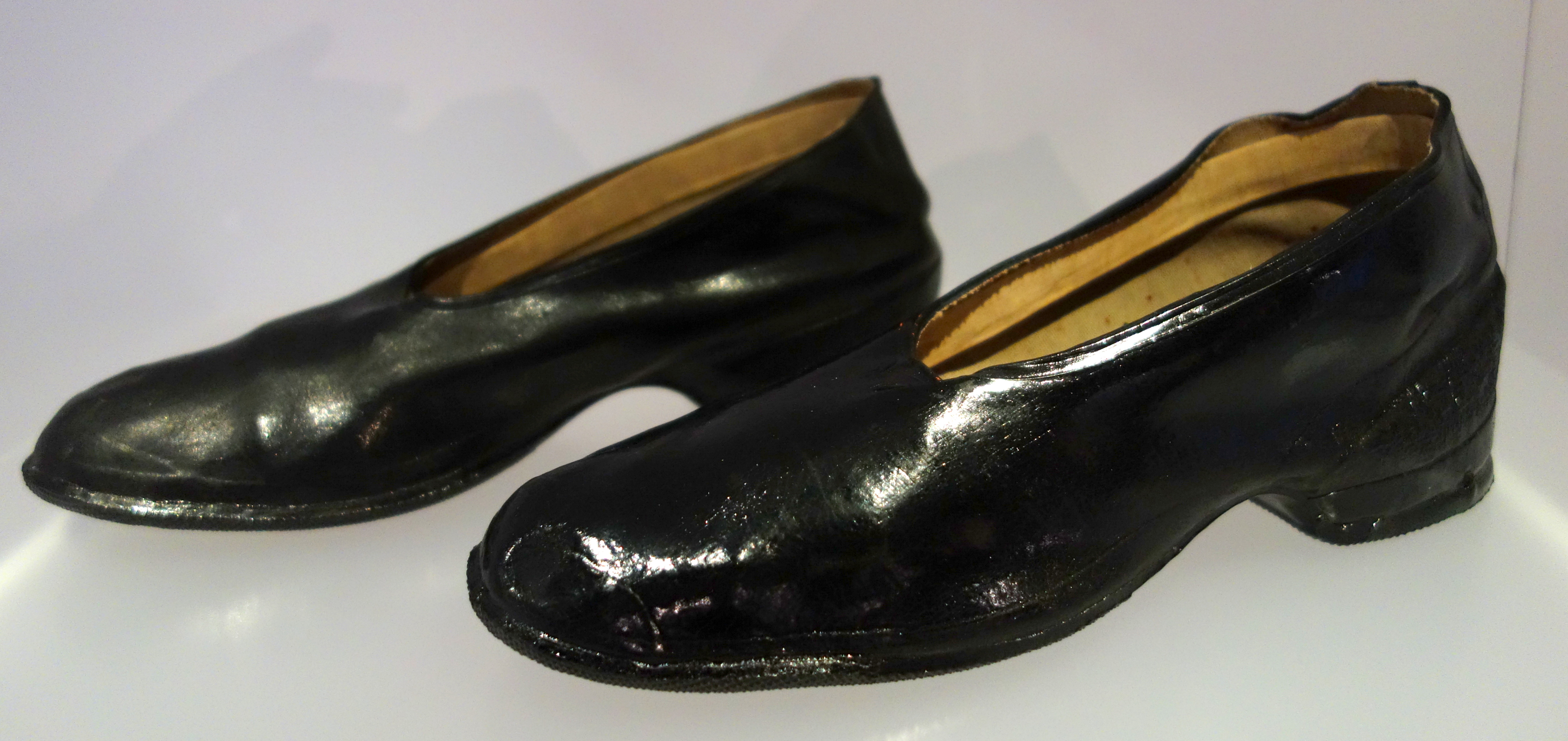 Exhibit in the Bata Shoe Museum, Toronto, Ontario, Canada. This item is old enough so that its design is in the public domain. The museum permitted photography without restriction.